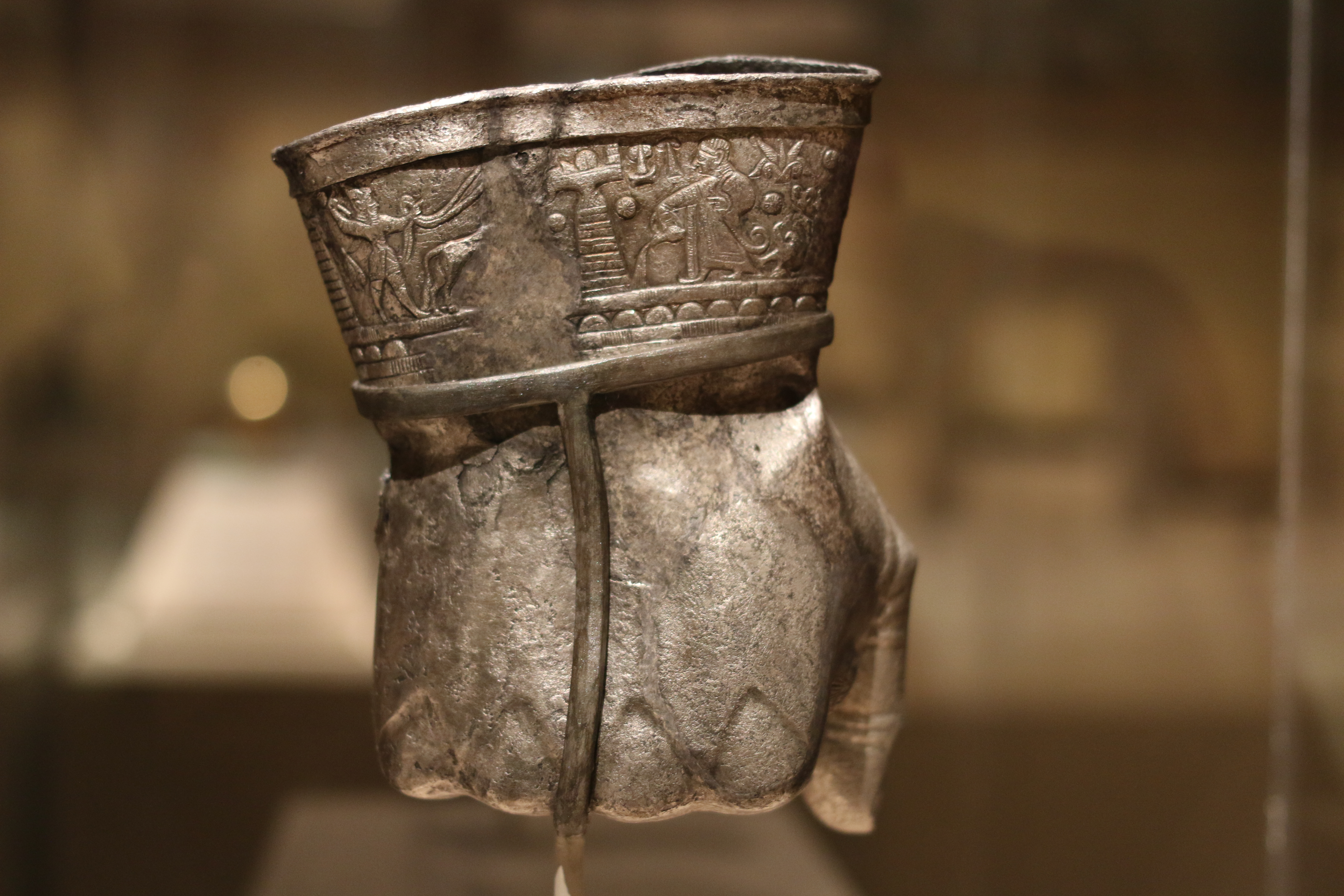 Text from museum placard: Drinking cup in the shape of a fist Central Turkey, Hittite, probably reign of Tudhaliyas III, about 1400-1380 B.C. Silver Surviving Hittite objects in precious metal are very rare. This cup was evidently used for rituals connected with the weather god, Tarhuna, who appears holding a bull in the frieze around the rim. The named donor of the cup was "Great King Tudhaliyas," who is shown leading priests and musicians from a city over a mountain, personified as a human figure covered with leaves. The fist shape probably evoked a Hittite hieroglyph meaning "strength," and the cup may have been presented to the god so that he would grant strength to the royal donor when the contents were drunk. Gift of Landon and Lavinia Clay in honor of Malcolm Rogers, 2004 2004.2230